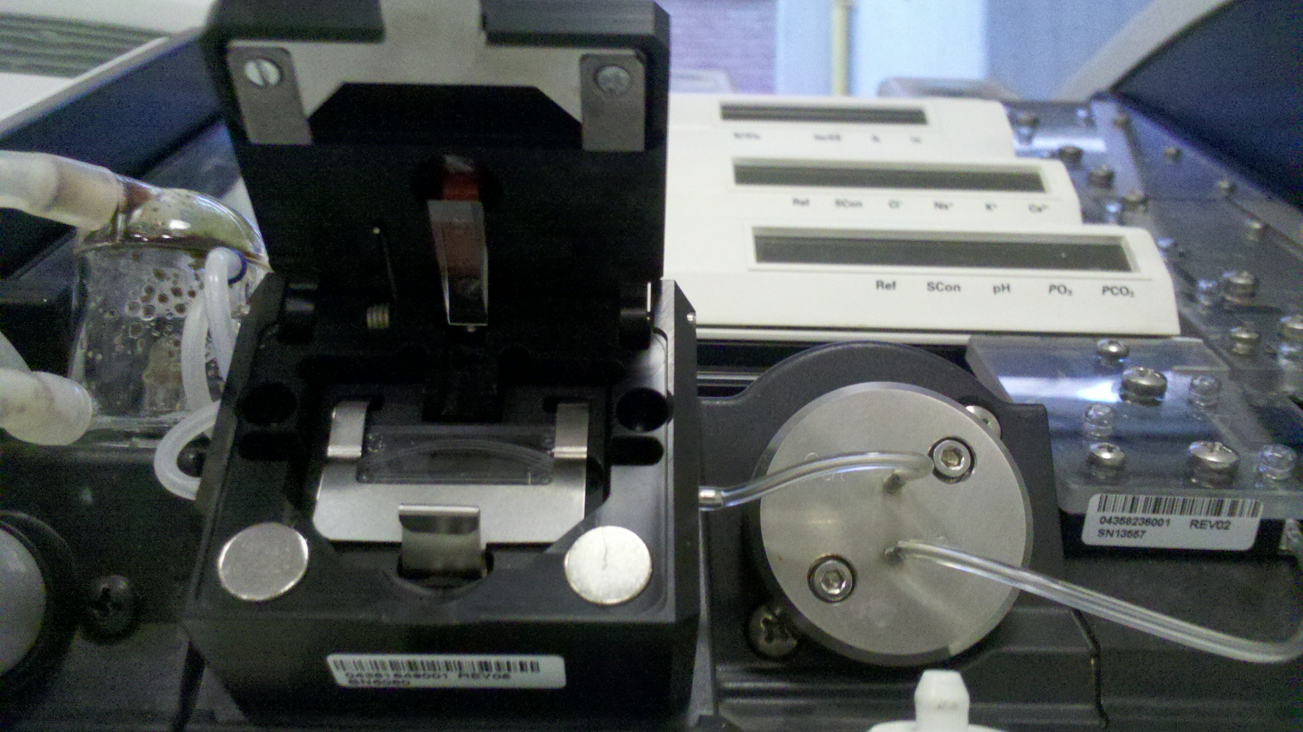 Cobas 221 (Roche Diagnostics) - SPF module (detail). From the left: Spectrophotometric cuvette Ultrasonication module (purpose - disrupt the red blood cells to release the hemoglobin) Emergency laboratory, Hospital de Niños, Córdoba, Arg.